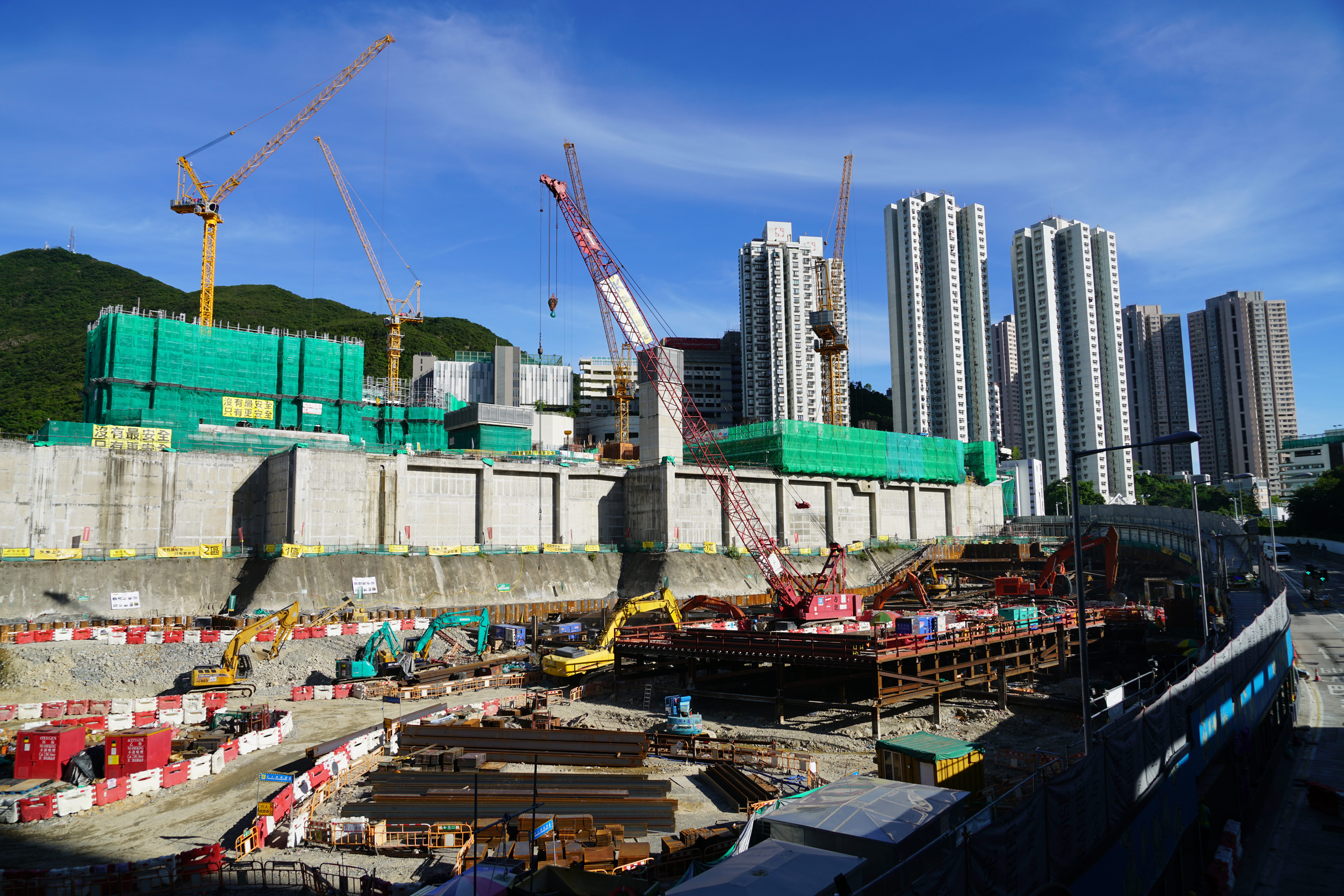 Wong Chuk Hang Station Development, Hong Kong.